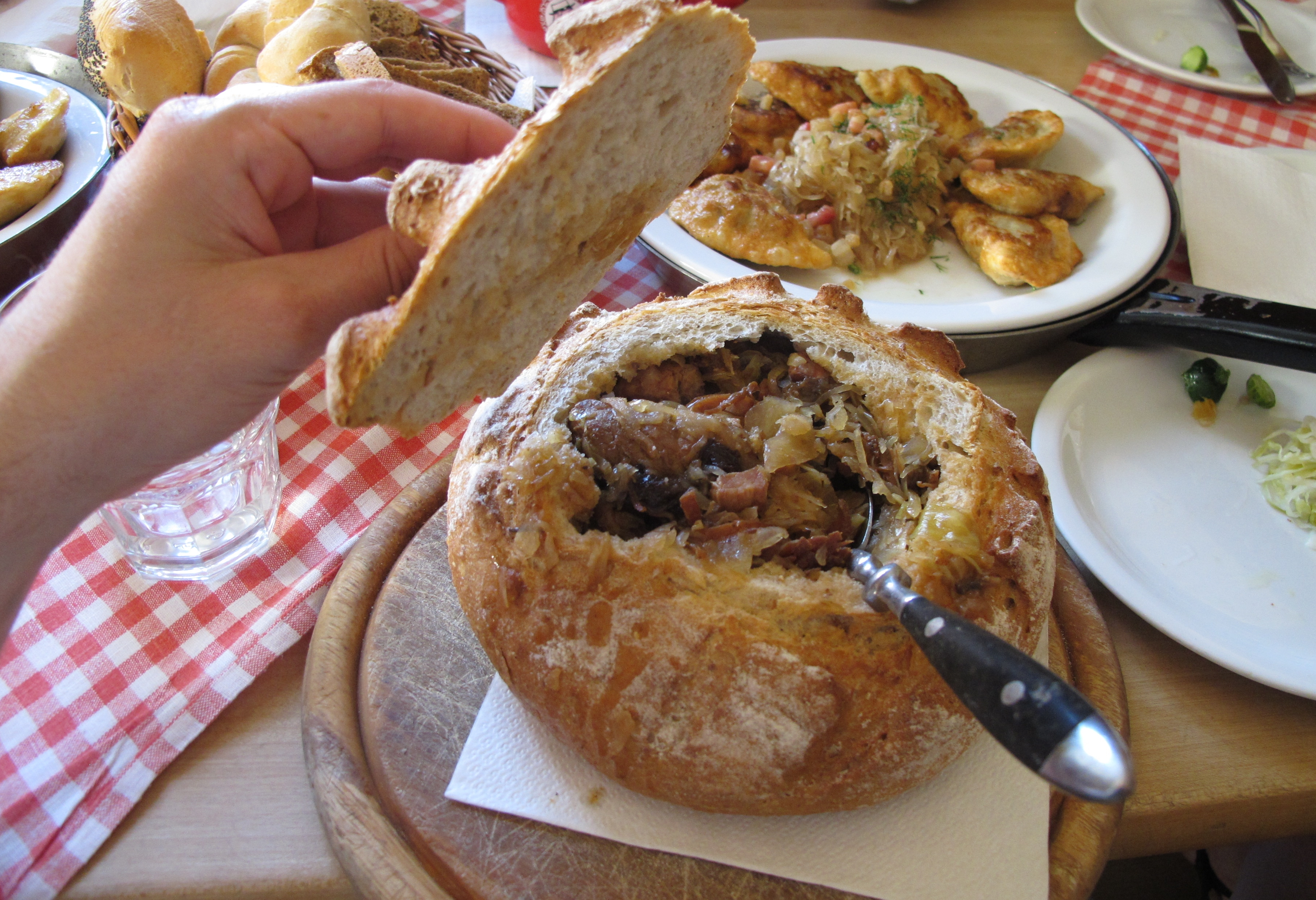 A traditional Polish cuisine, sauerkraut with sausage, here served in a bread.